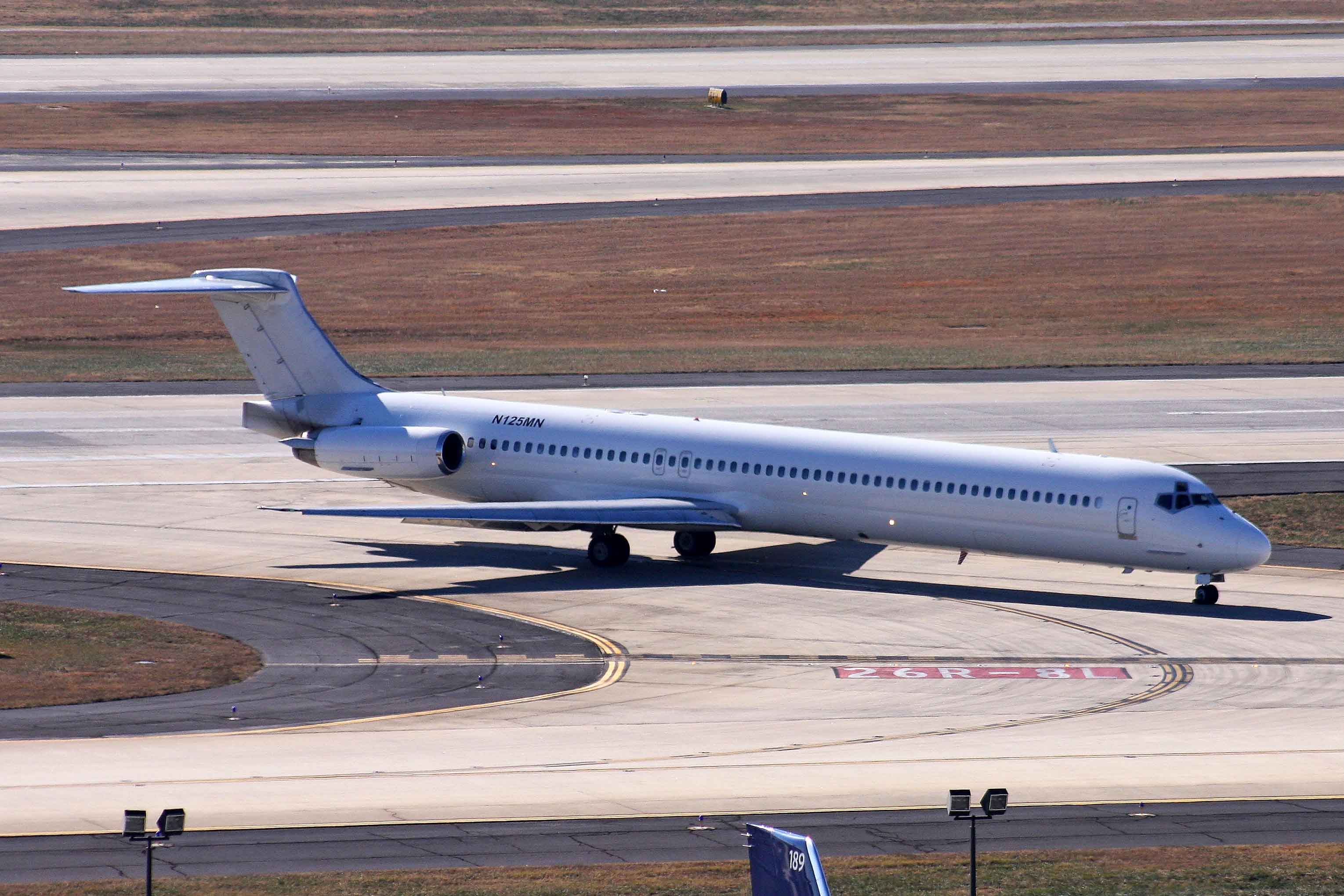 all white, no titles